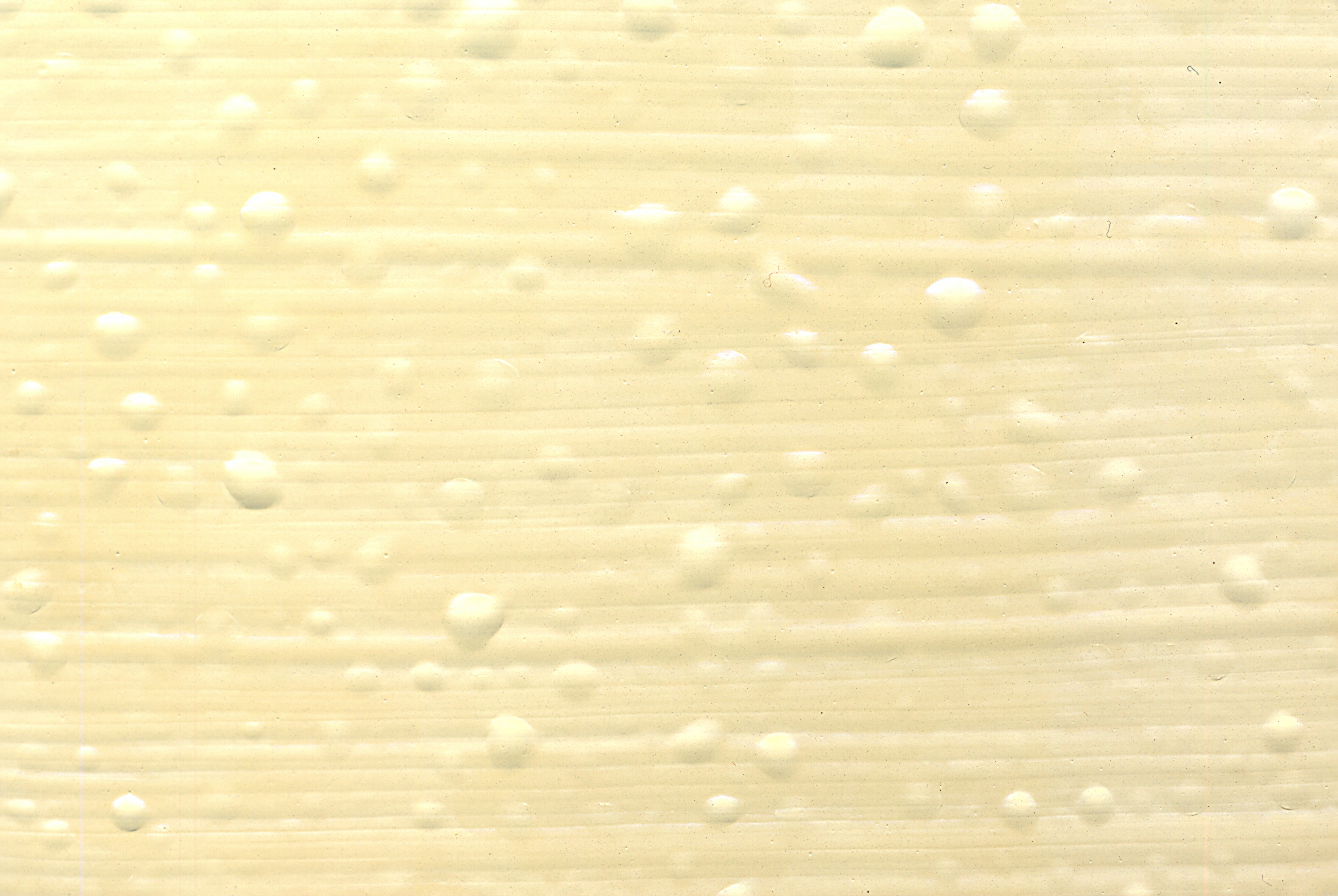 Blisters on a coating film.